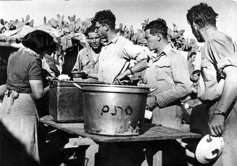 Operation Horev, January 1949)